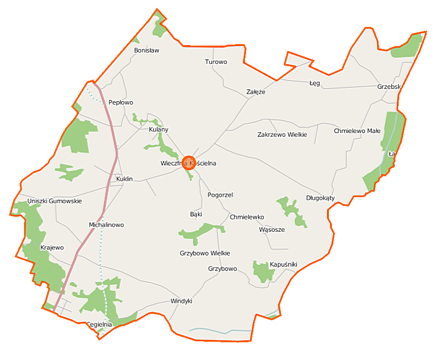 Map of Gmina Wieczfnia Kościelna, Poland This map of Wieczfnia Kościelna (gmina) was created from OpenStreetMap project data, collected by the community. This map may be incomplete, and may contain errors. Don't rely solely on it for navigation. Border coordinates53.249620.3711←↕→20.616553.1303